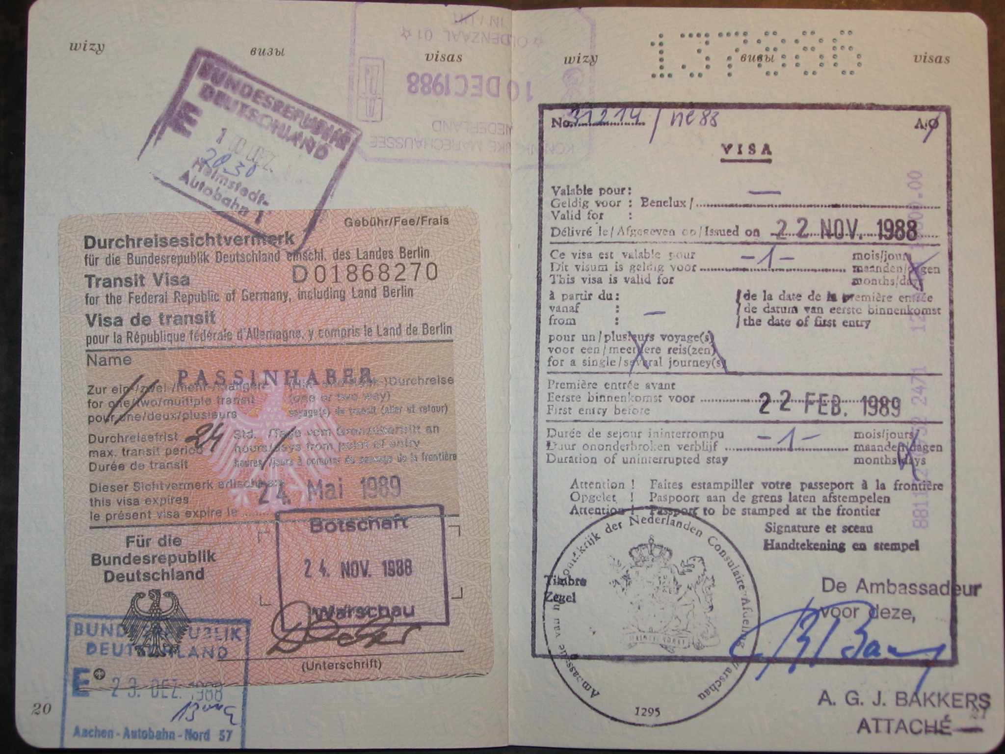 Polish citizien's passport of 1988 - pages with visas and border-control stamps. Left: transit visa for multiple travelling across West Germany (transit no longer than 24 hours). This visa, issued by West-German Embassy, is in the form of label attached on page of passport, with hand-written marks. Right: visa for single visit on Benelux territory (uninterrupted staying no longer than 1 month). This visa, issued by Dutch Embassy, is in the form of stamp printed on page of passport, with hand-written marks. Passport and visas validity expired in 1989.